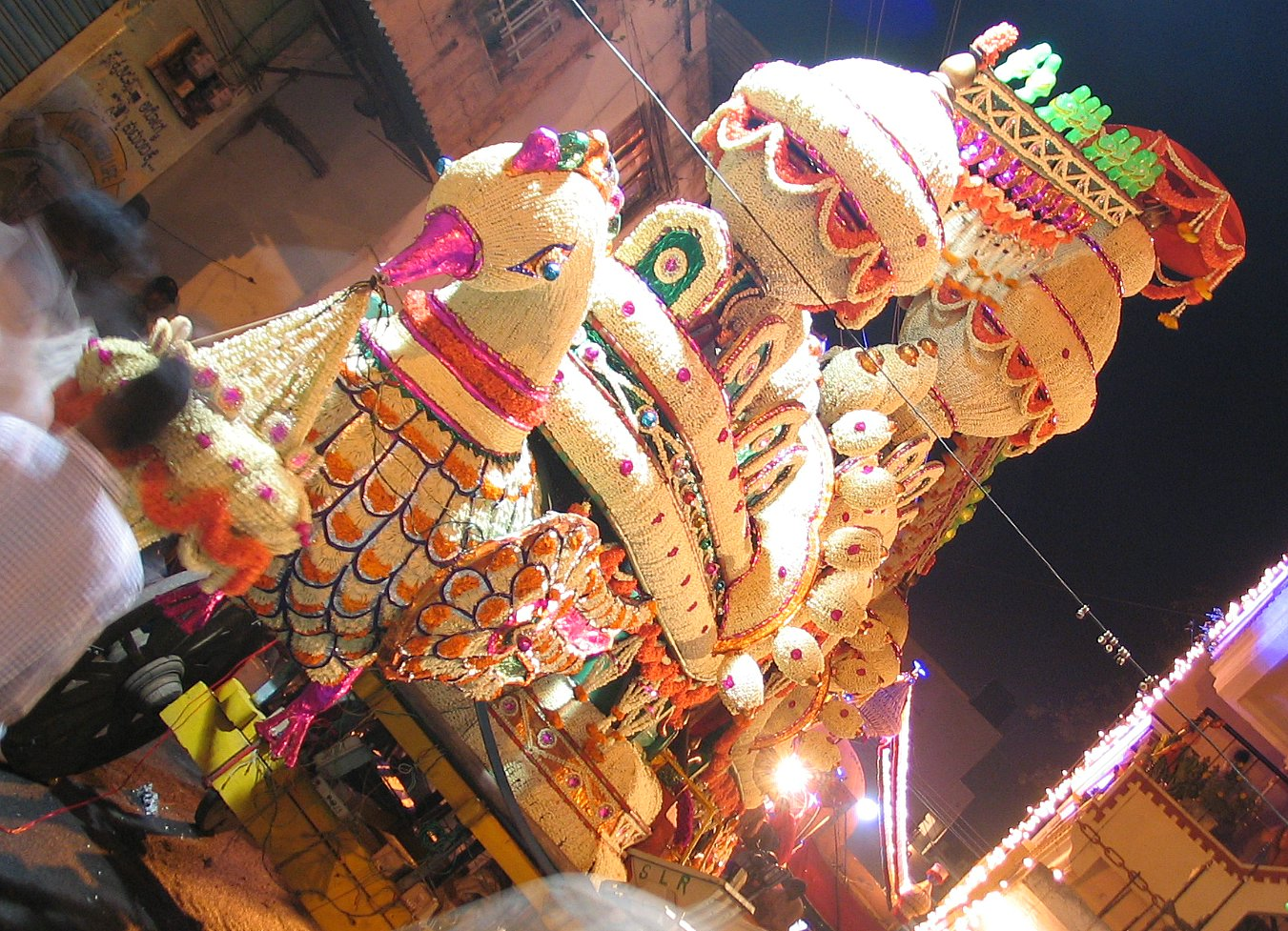 Elaborate swan-shaped vehicle for the goddess Maheshwaramma on the Hindu festival of Ramanavami in 2006. Original description: Chariots on the day of Ramanavami. This is the mother of all Pallakies (Chariots)... This is for the Lady Maheshwaramma... and it is called hoovina pallaki (flower Charriot)... Best viewed Large... I really wished the wire was not running across the chariot...